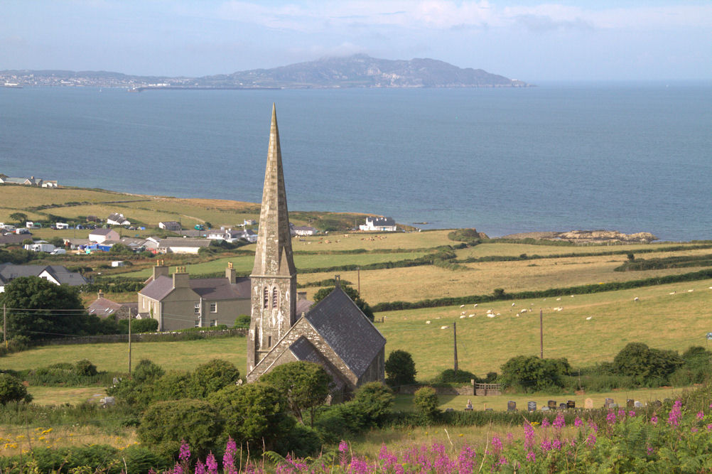 Eglwys St. Rhuddlad, St Rhuddlad's Church, Church Bay, Isle of Anglesey.